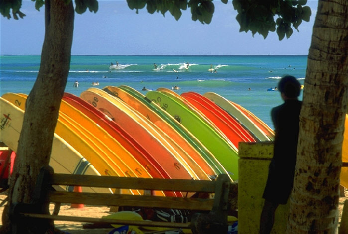 Description: Surf at Waikiki Beach à Honolulu (Hawaï) fr: Photographie trouvée par Utilisateur:Semnoz sur [1] PHIL ID# 1384 Title: Surfboards and surfers. Waikiki Beach, Honolulu, Hawaii. Content Provider(s): CDC/Dr. Edwin P. Ewing, Jr. Provider Creation Date: 1999 Description: Waikiki Beach, Honolulu, Oahu, Hawaii. People at play. Source Library: PHIL Photo Credit